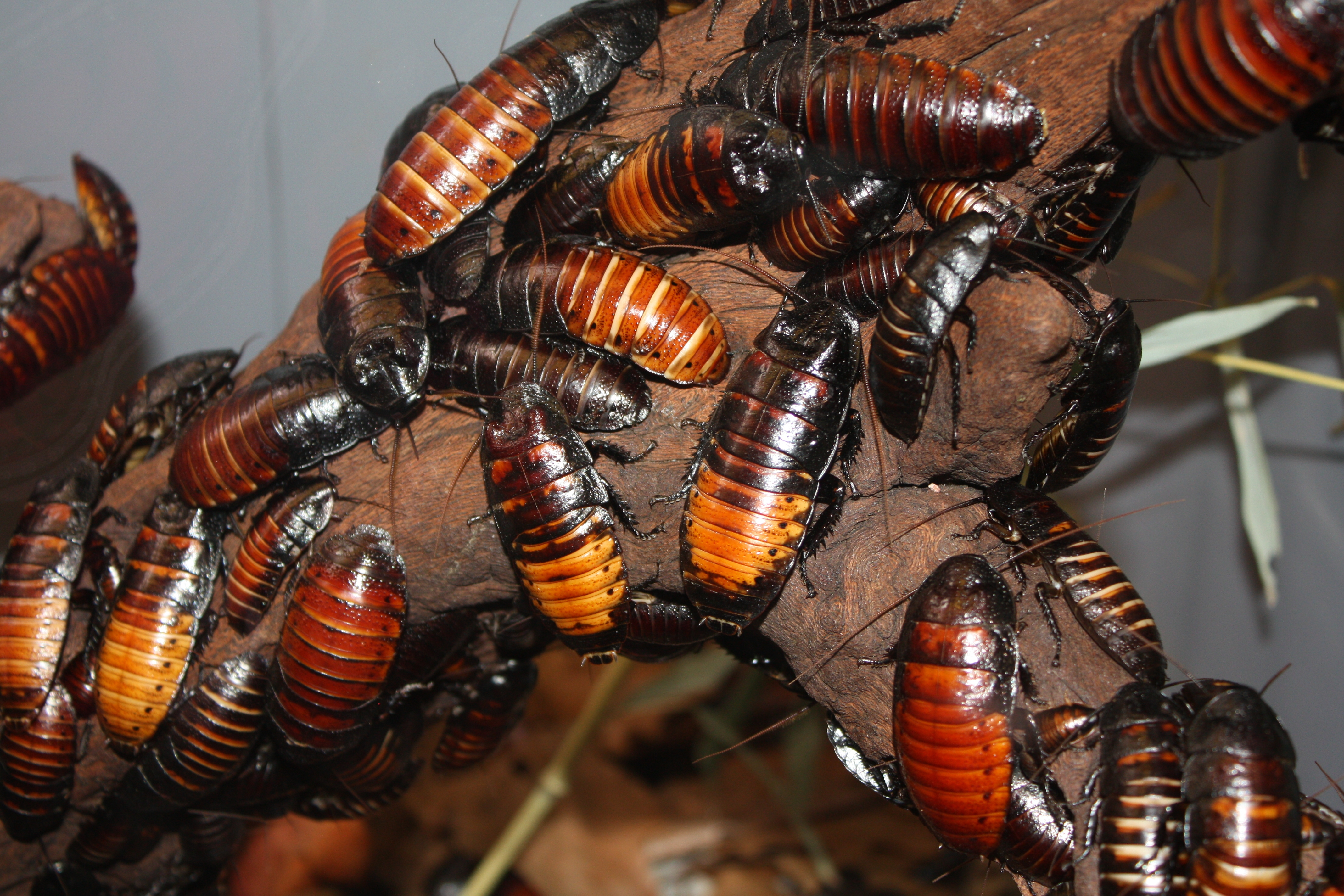 Hissing Cockroach Gromphadorhina portentosa at Cincinnati Zoo